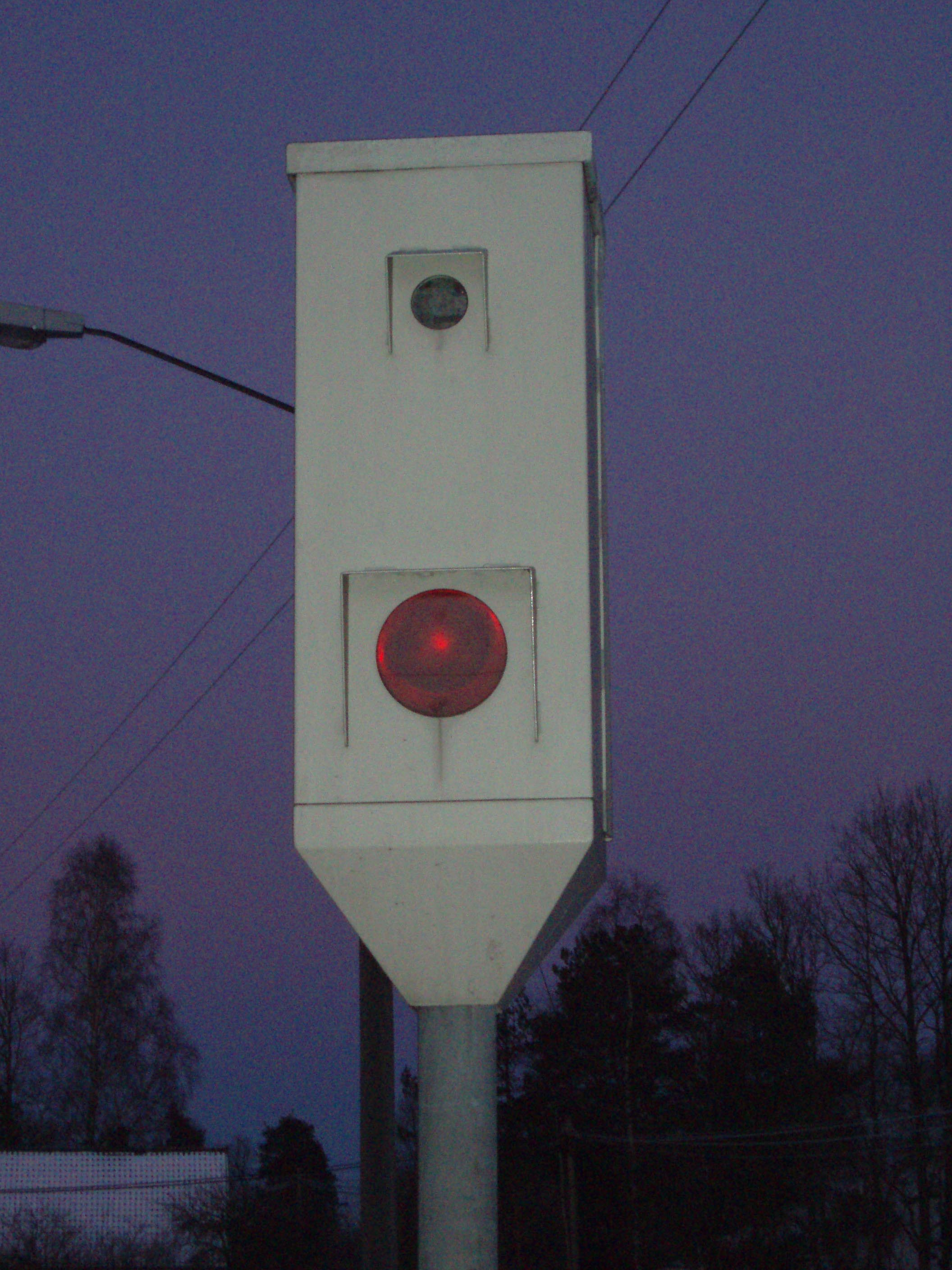 Picture of traffic photobox taken by "Friman" 2.1.2006, Arendal, Norway